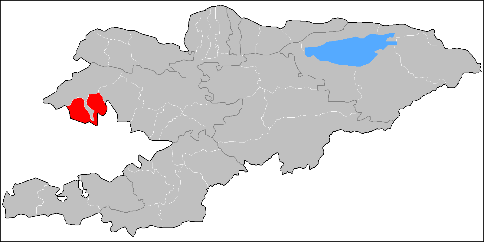 The location of the raion (district) of Ala-Buka in Kyrgyzstan. Based on Image:Kyrgyzstan raions.png